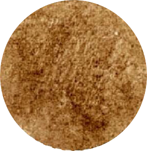 Tattoo worn by an unidentified woman murdered in Maryland in 1976.